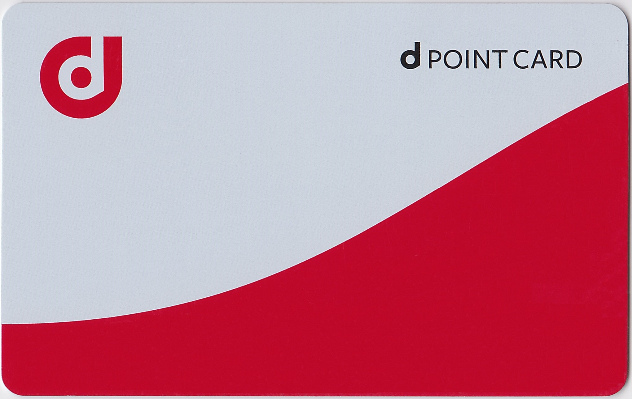 NTT DoCoMo d Point Card